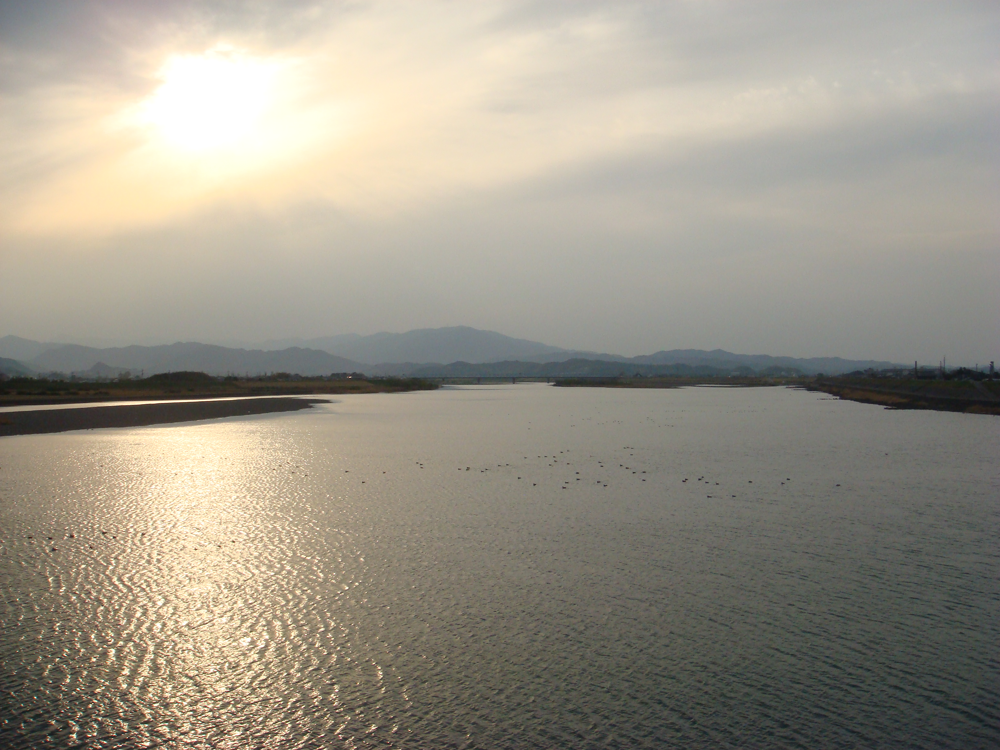 nakagawa-river(Japan-tokushima)2008/4/5 jsqwfthbfs-file